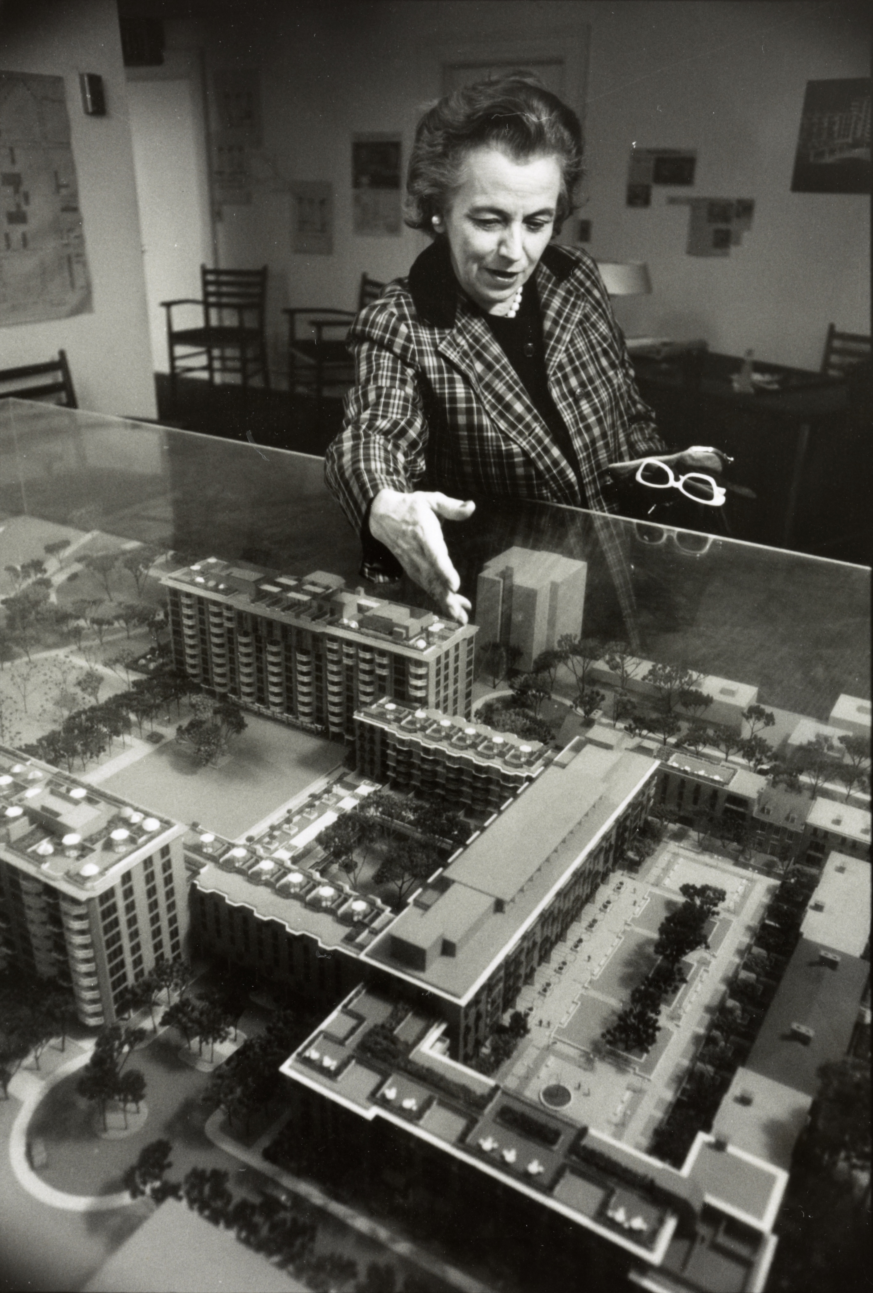 Architect Chloethiel Woodard Smith presenting a model of her Harbour Square project for Southwest Washington, D.C. (cropped, rotated, and edited for contrast)